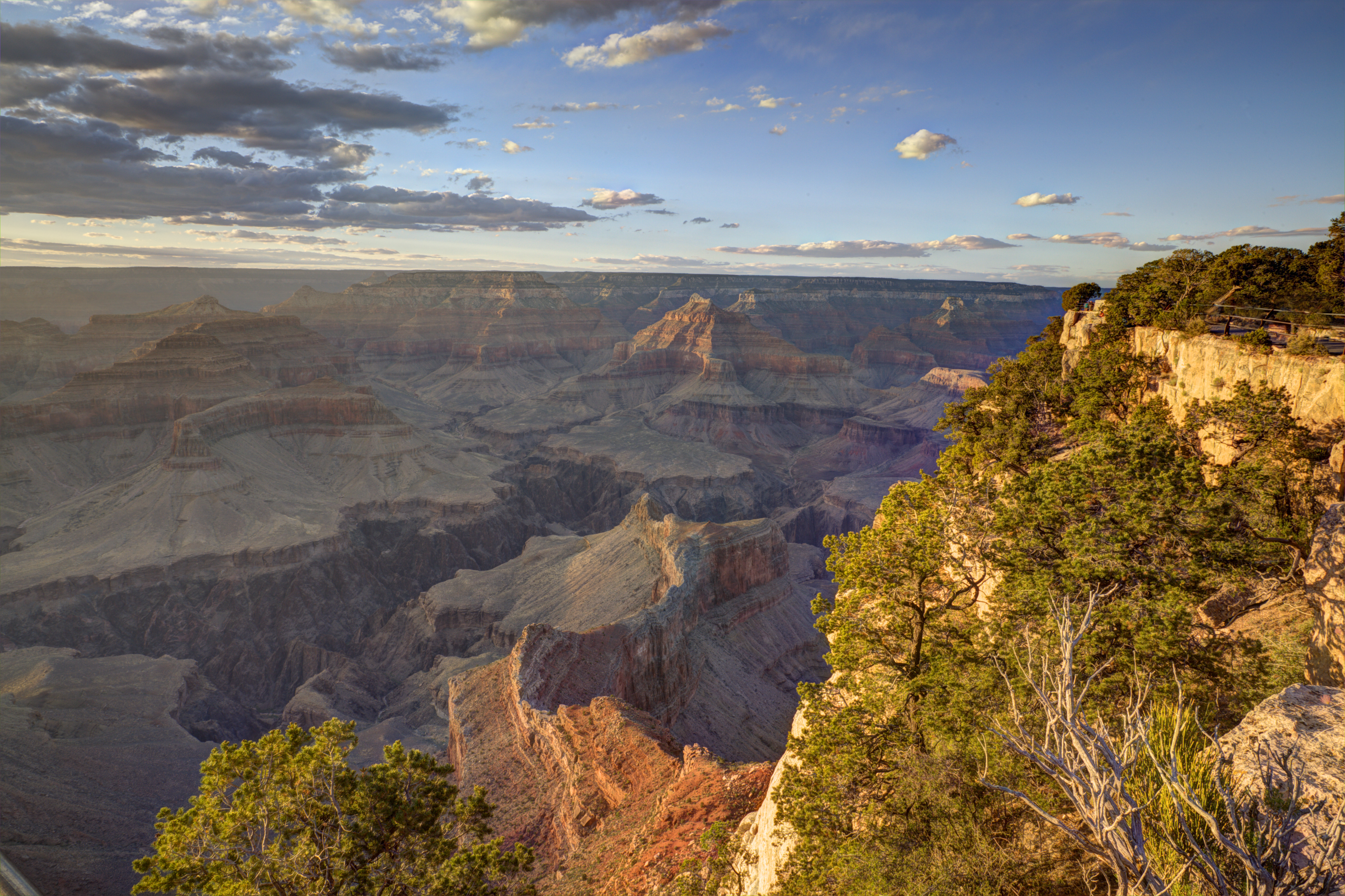 The south Rim of the Grand Canyon in the evening